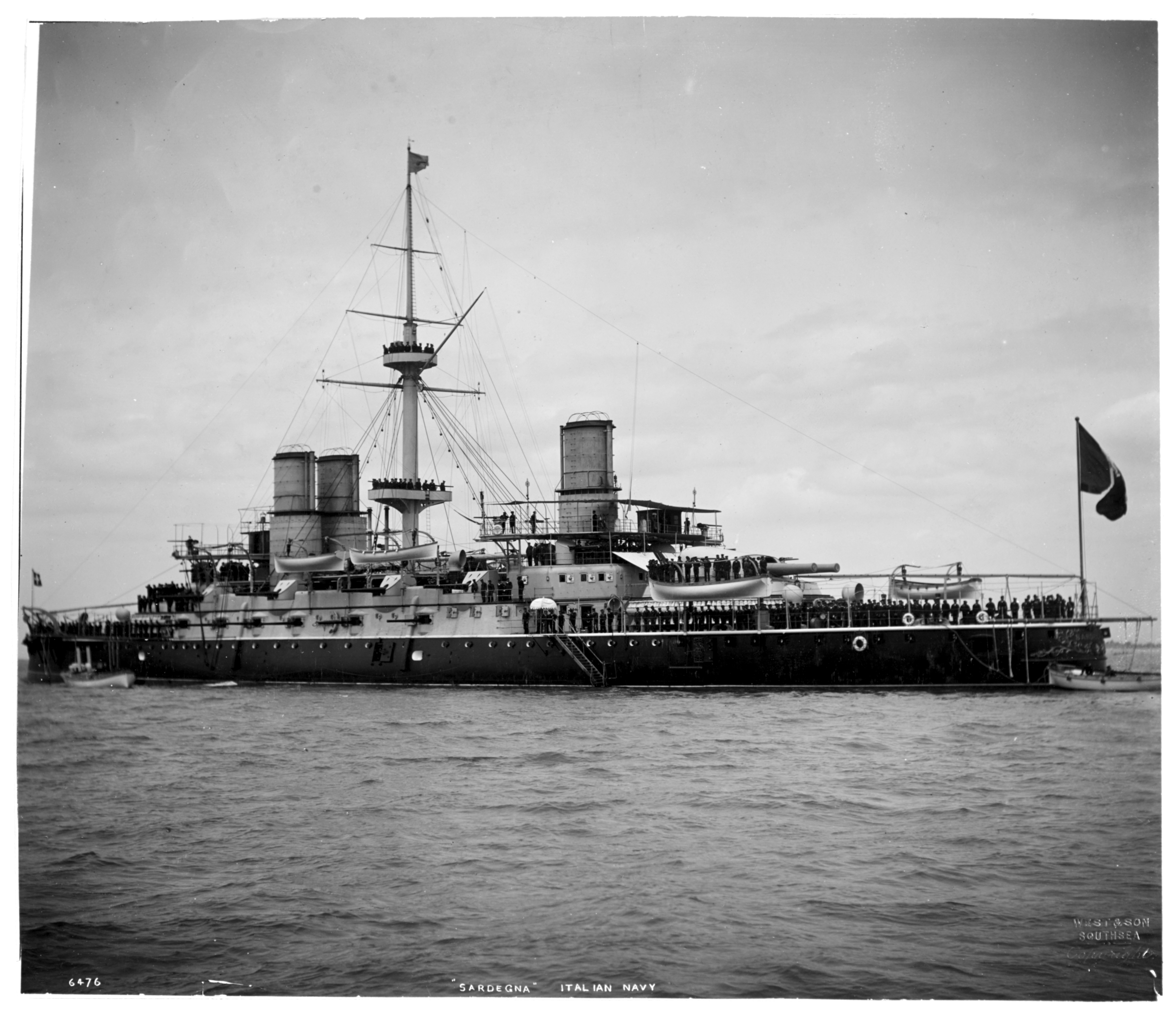 Sardegna (Italian Battleship, 1890-1923)